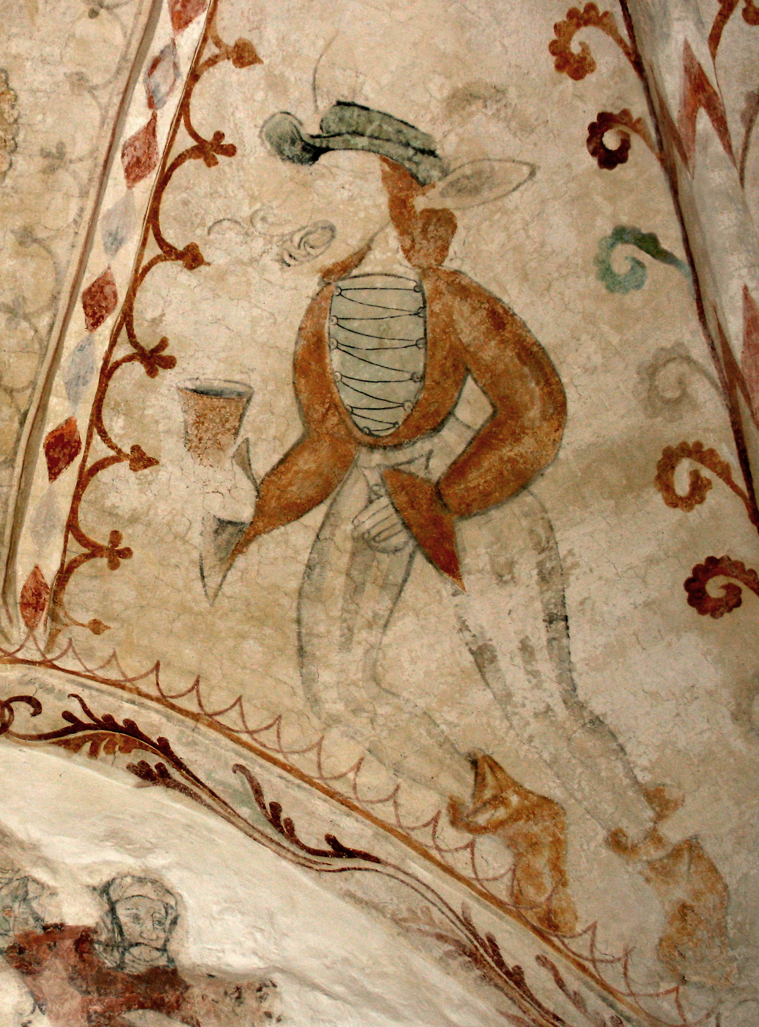 Dalbyneder Church, the western arch in the naive with a gothic fresco from 1511 of a man with a dogs head, which symbolizes envy, one of the seven Catholic mortal sins. Dalbyneder Sogn, Gjerlev Herred, Randers Amt, Denmark.